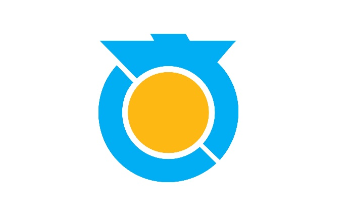 Flag of sanagochi Tokushima